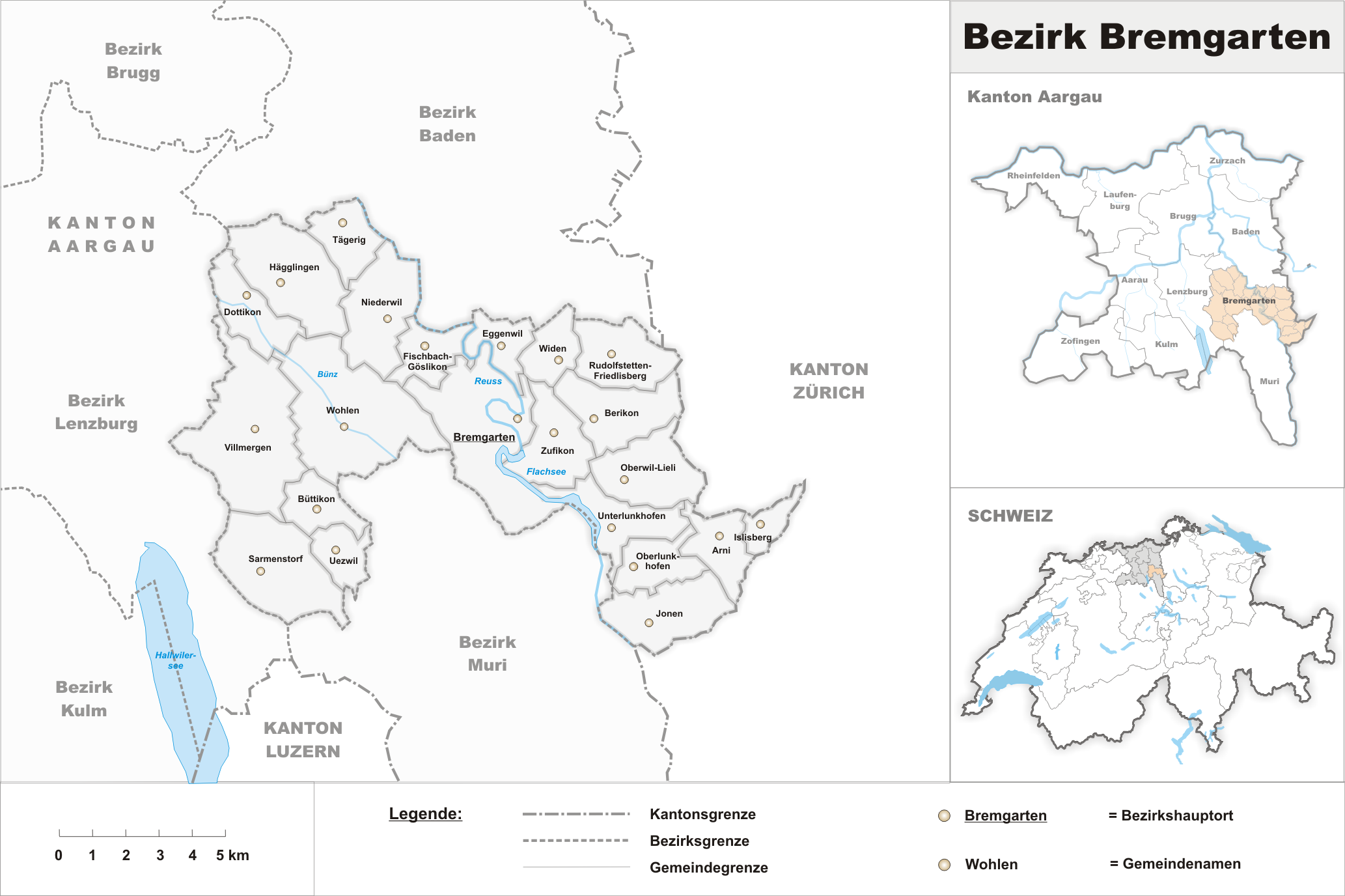 Municipality in the District of Bremgarten